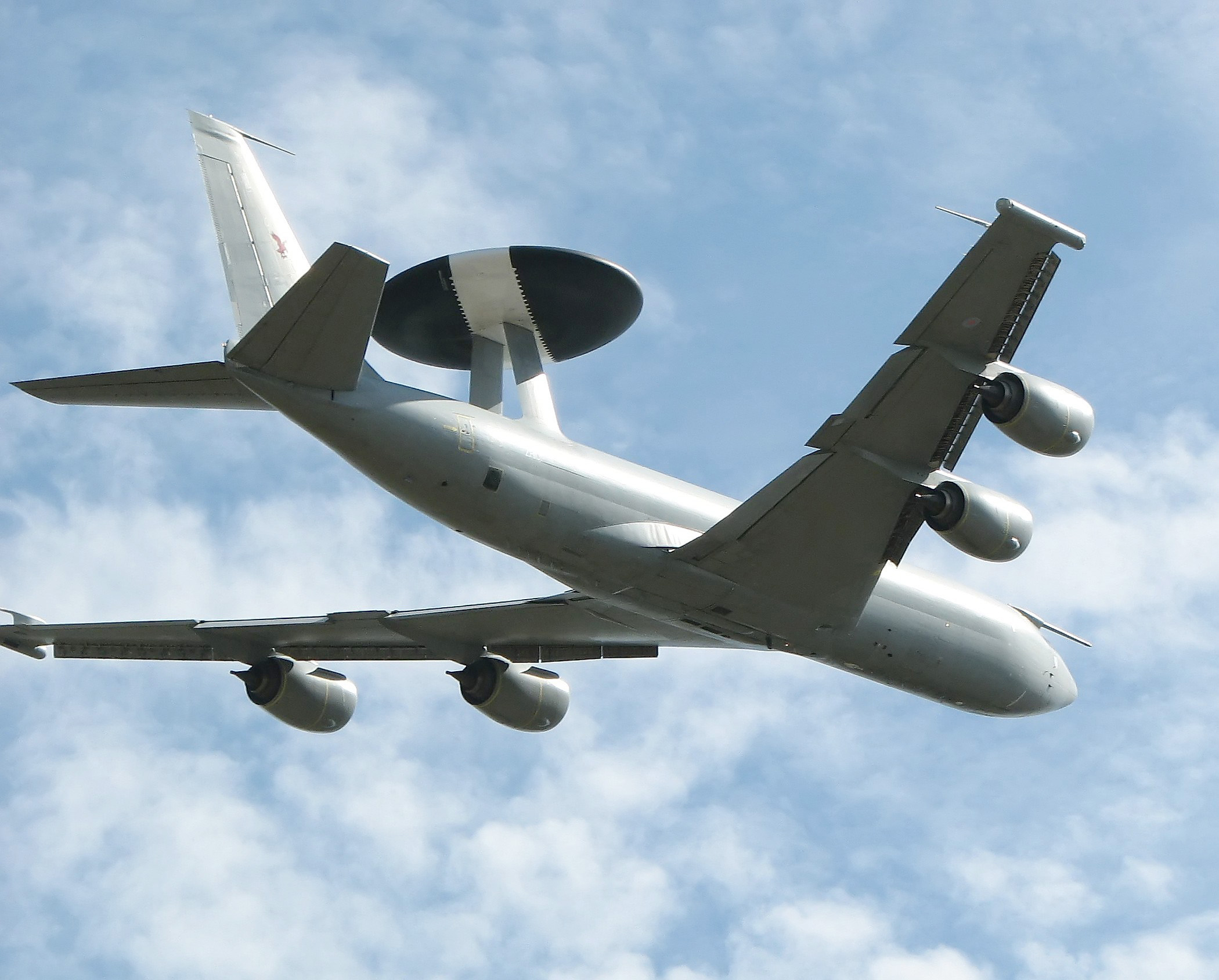 Boeing E3-D Sentry AEW1 (ZH101) of the RAF takes off from the Royal International Air Tattoo, Fairford, Gloucestershire, England. Production ceasd in 1992 with 68 built. Photographed by Adrian Pingstone on July 17th 2006 and released to the public domain.